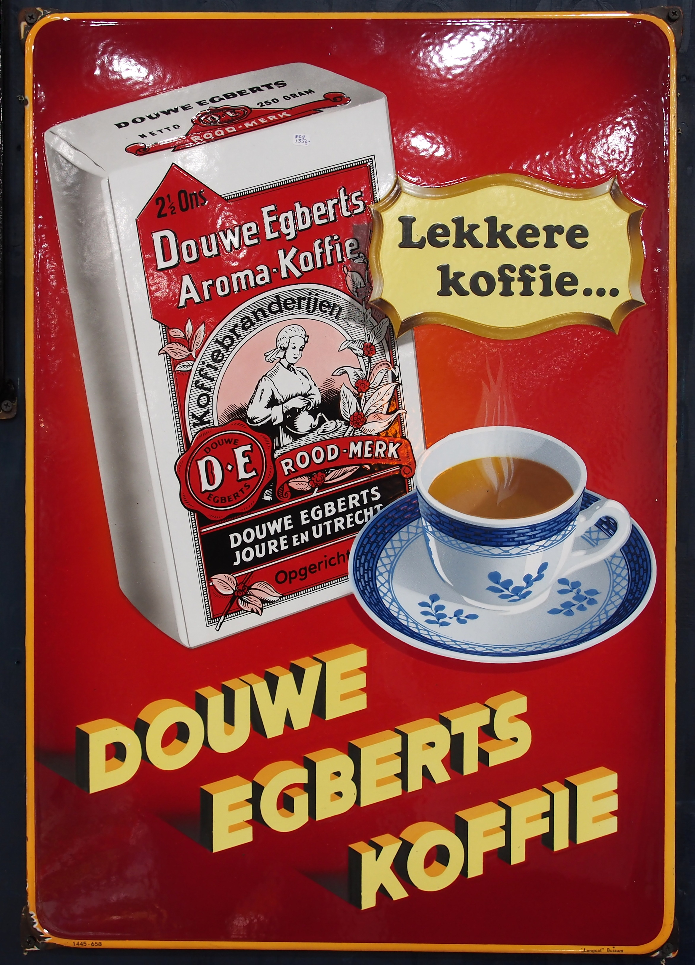 Photographed at the jaarbeurs in Utrecht.